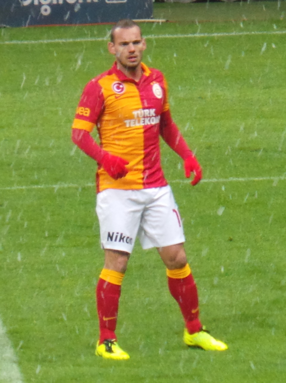 Sneijder with Galatasaray